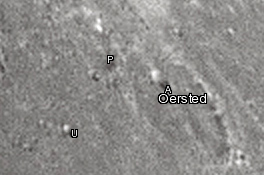 Oersted lunar crater as seen from Earth with satellite craters labeled